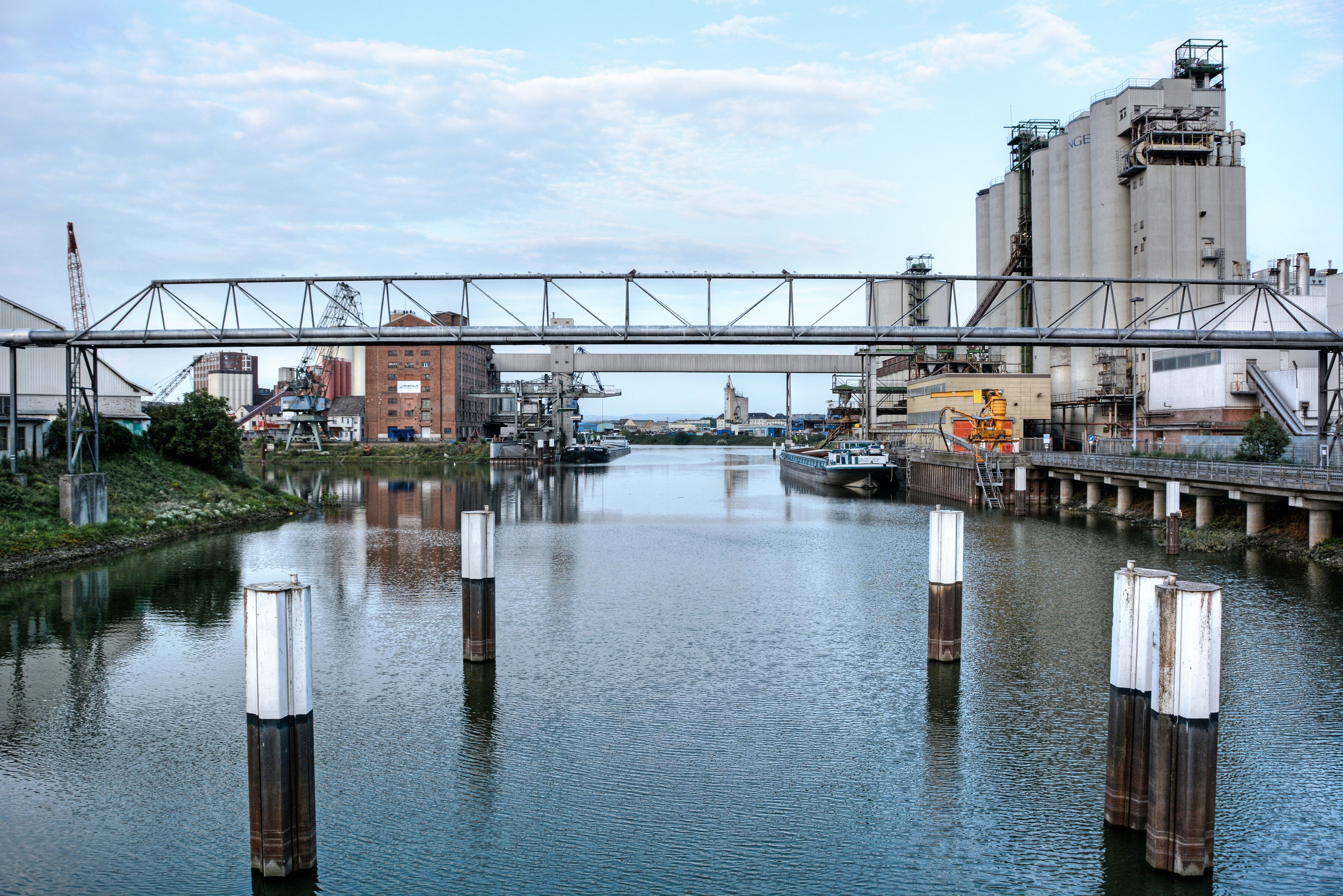 Mannheim, Germany, industry harbor (harbor 4), view from Kammerschleuse (lock) to harbors "Inselhafen" and "Bonadieshafen"